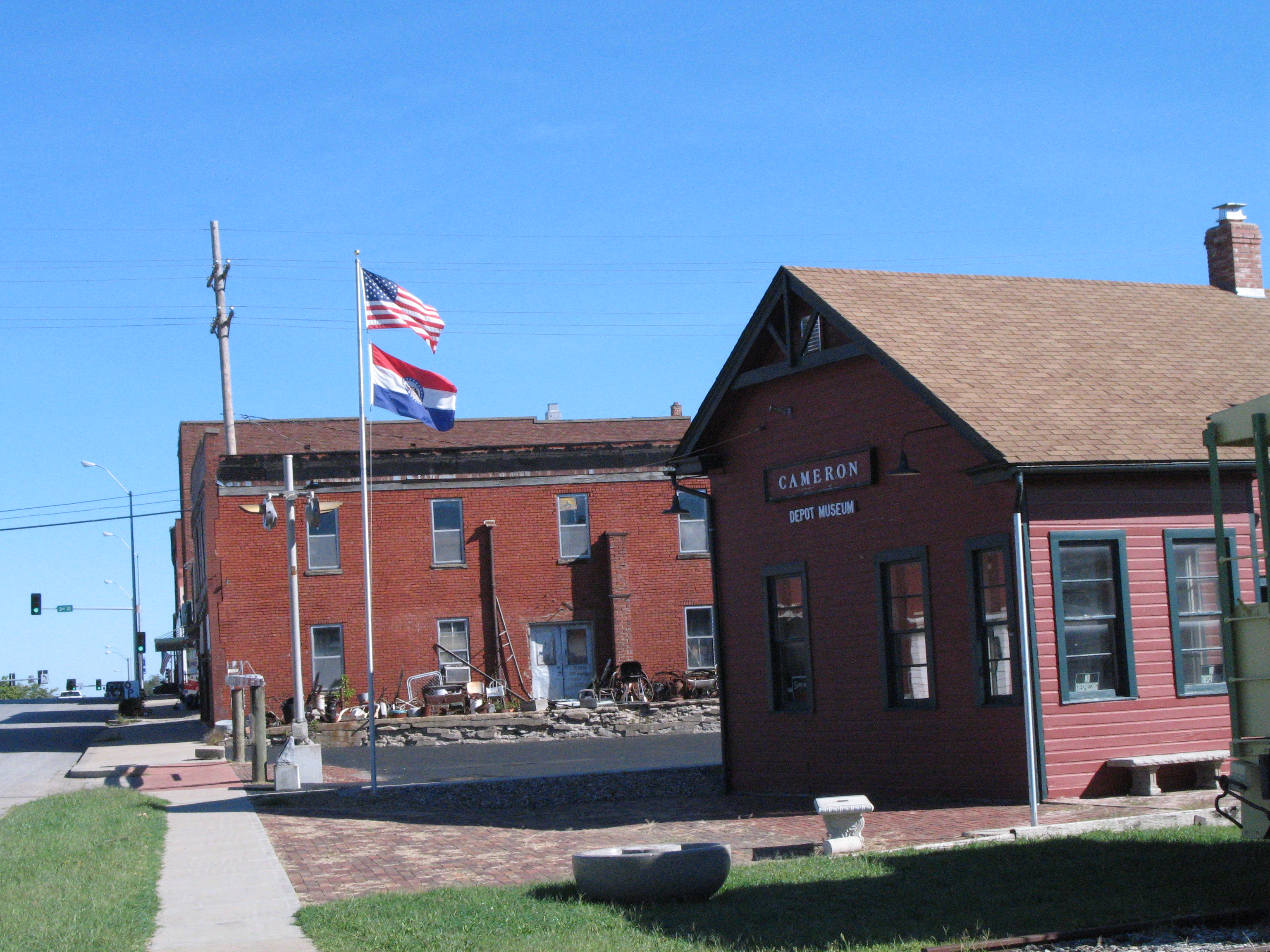 Cameron depot where the "Cameron Cutoff" of the St. Joseph and Hannibal Railroad resulted in the construction of the Hannibal Bridge across the Missouri River which made Kansas City into a major city.